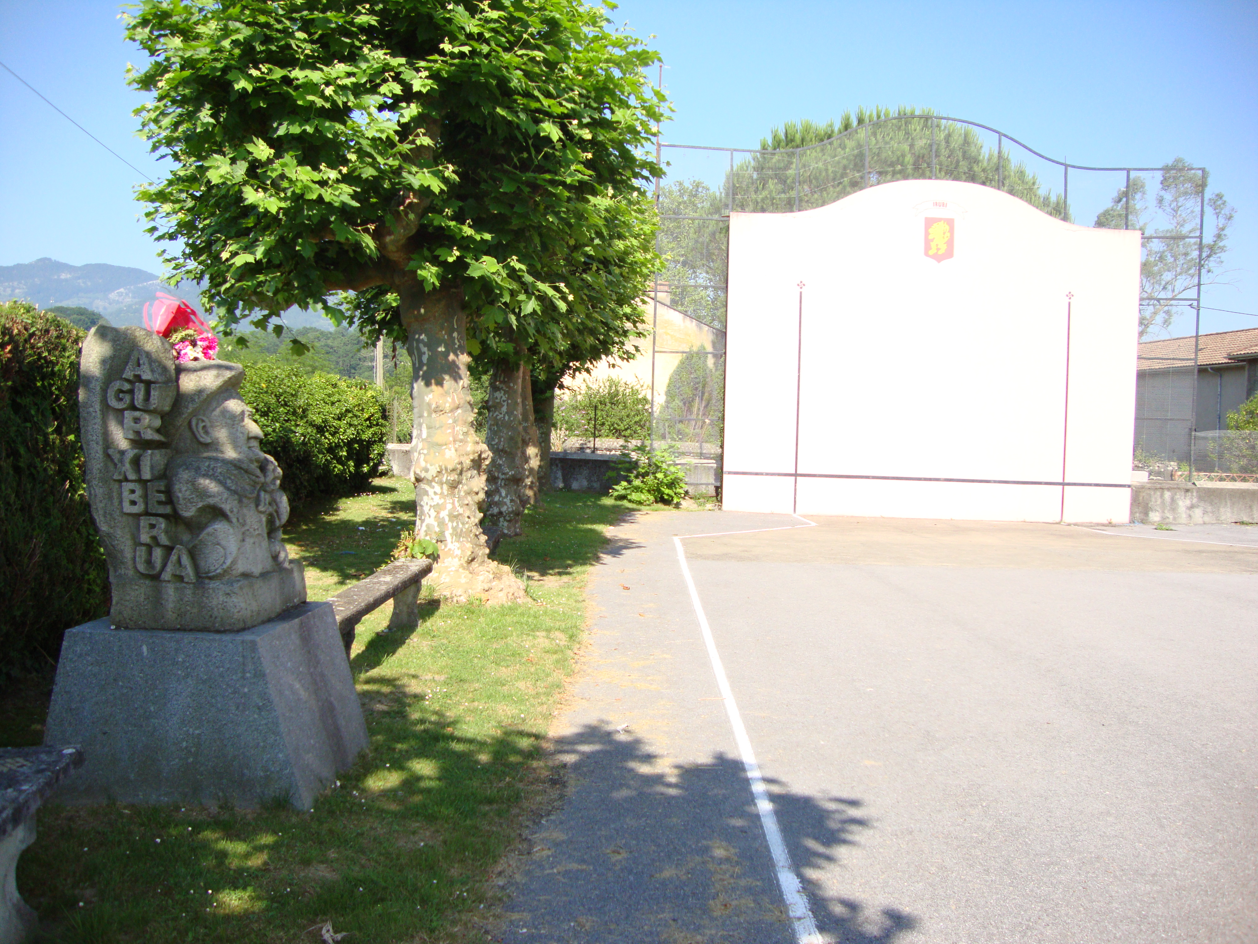 Troisvilles (Pyr-Atl, Fr) pelota court with statue of a pelotari